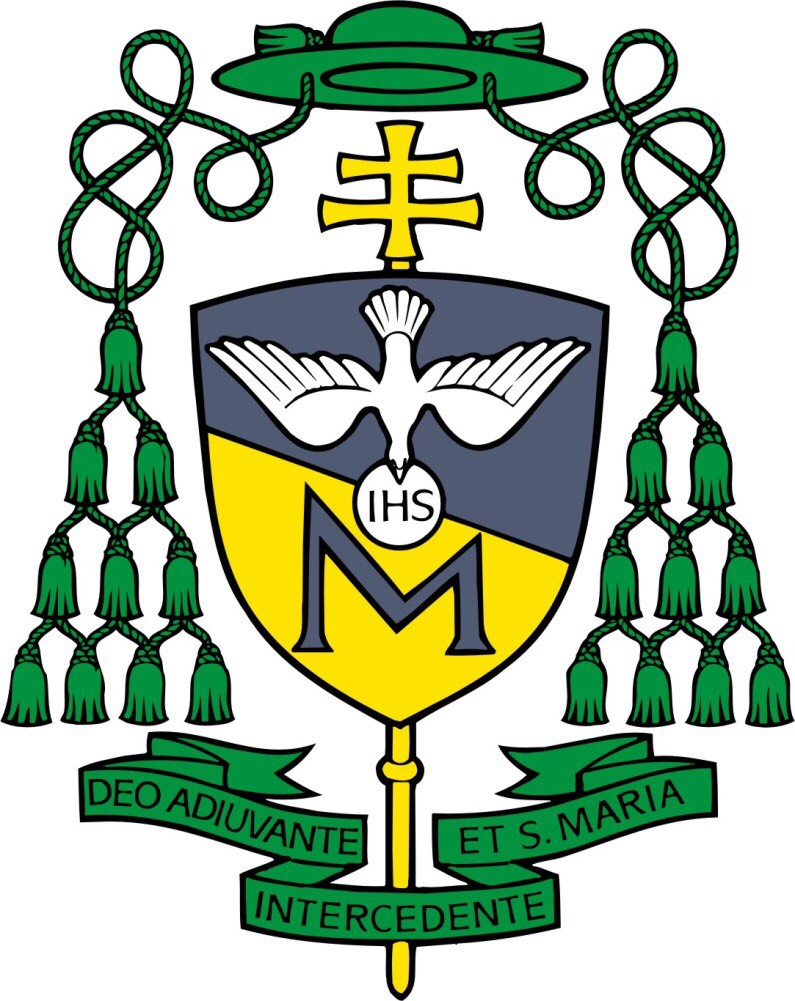 erb arcibiskupa gabrisa